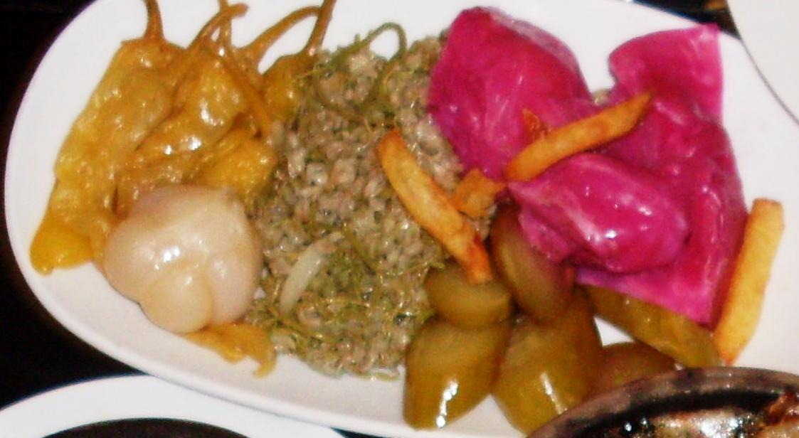 Georgia food